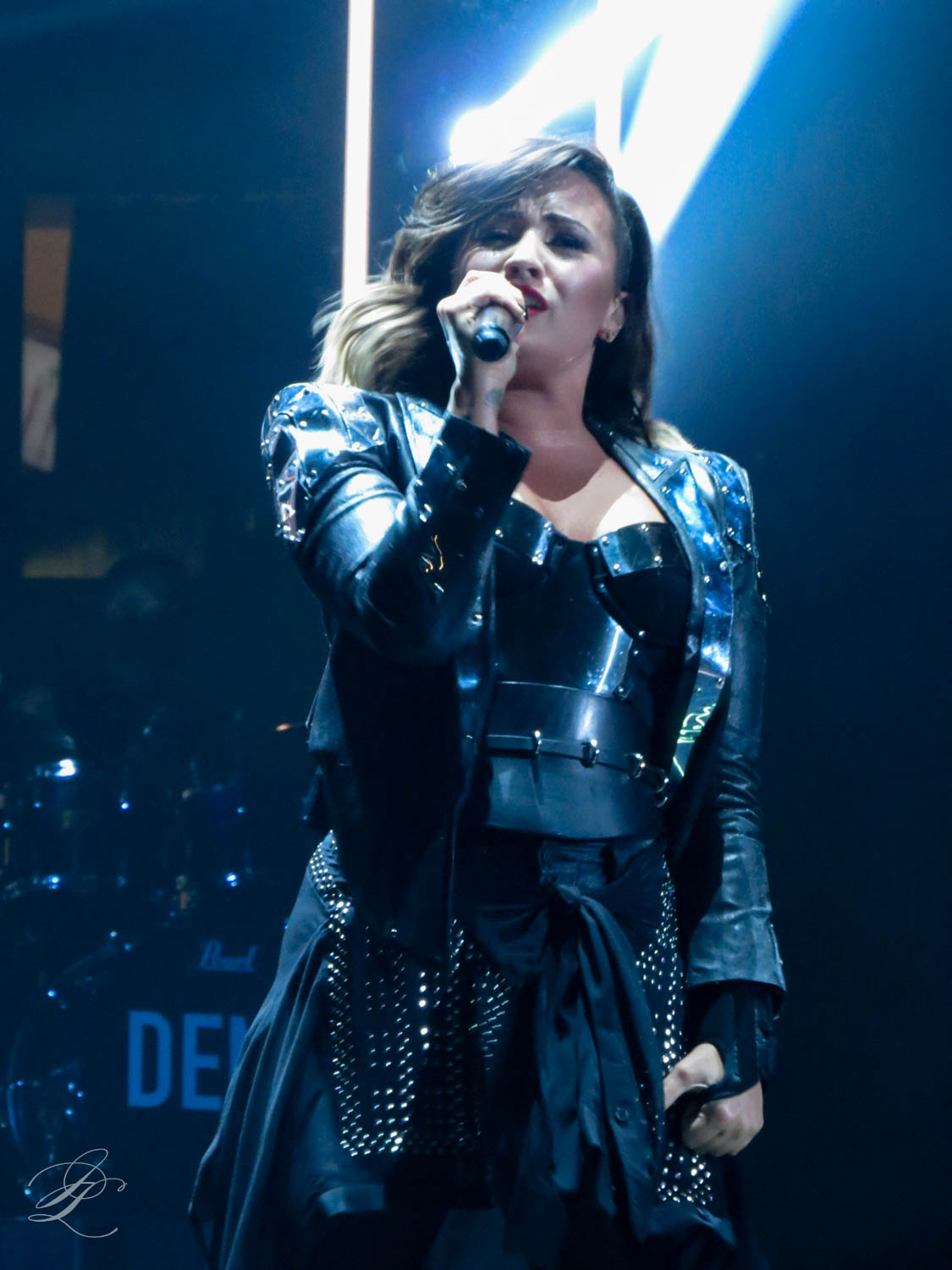 Demi Lovato performs at the Pepsi Center in Denver, CO on September 25, 2014.